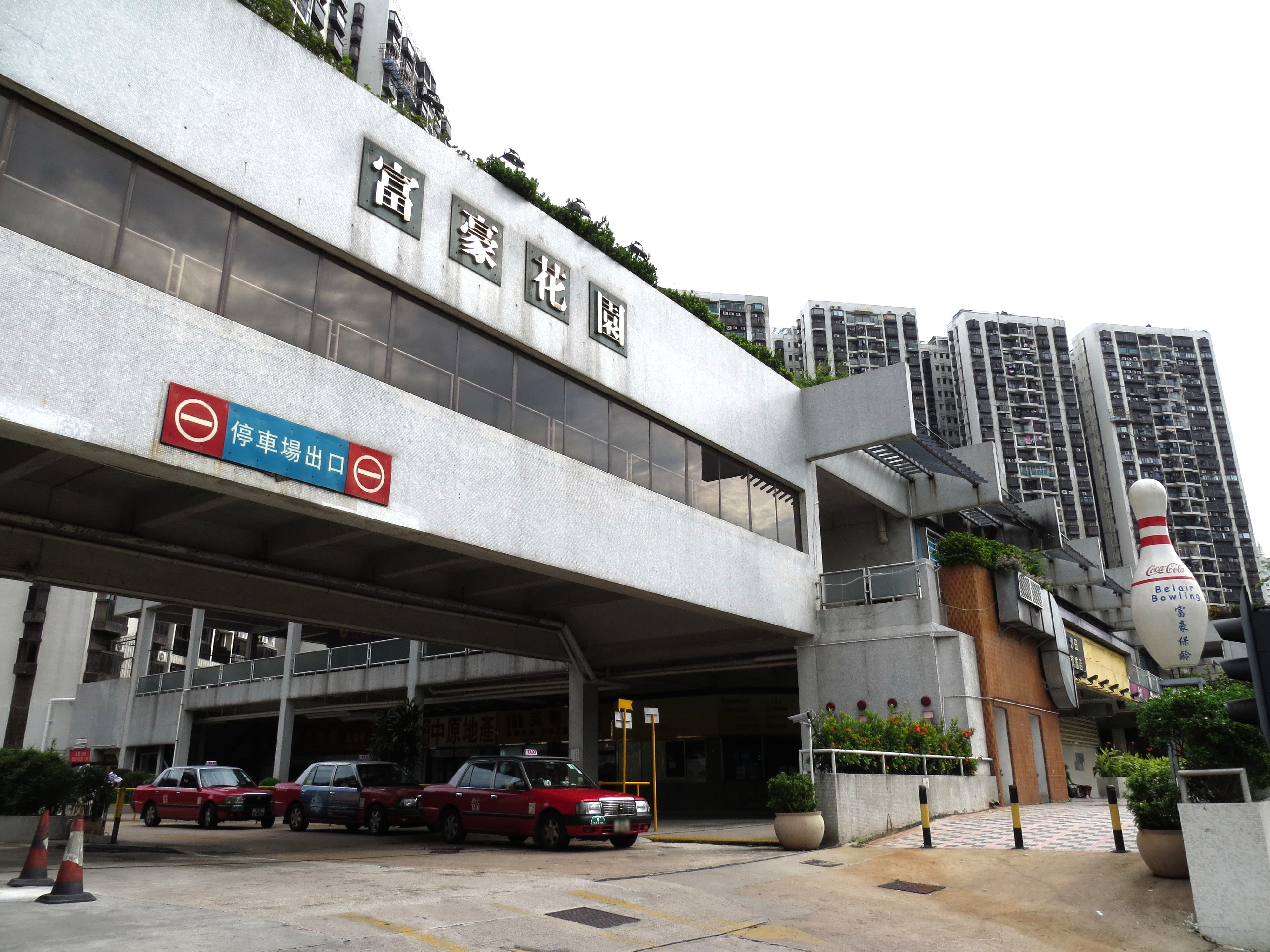 Belair Gardens, Sha Tin, New Territories, Hong Kong.